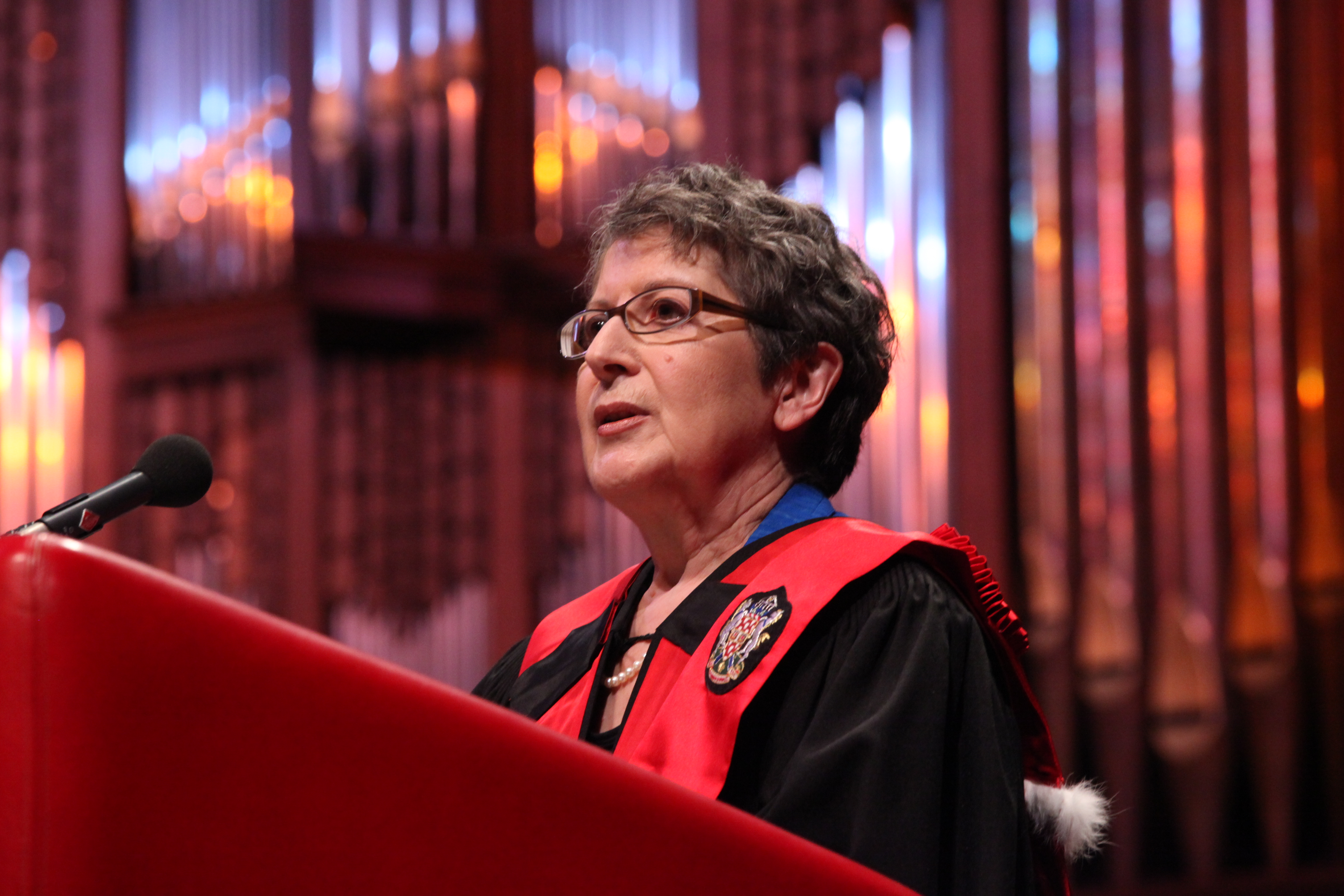 Honorary doctorat recipient Lise Bissonnette.